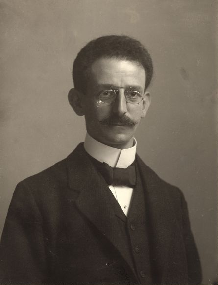 German radiologist Georg Joachimsthal (1863-1914)